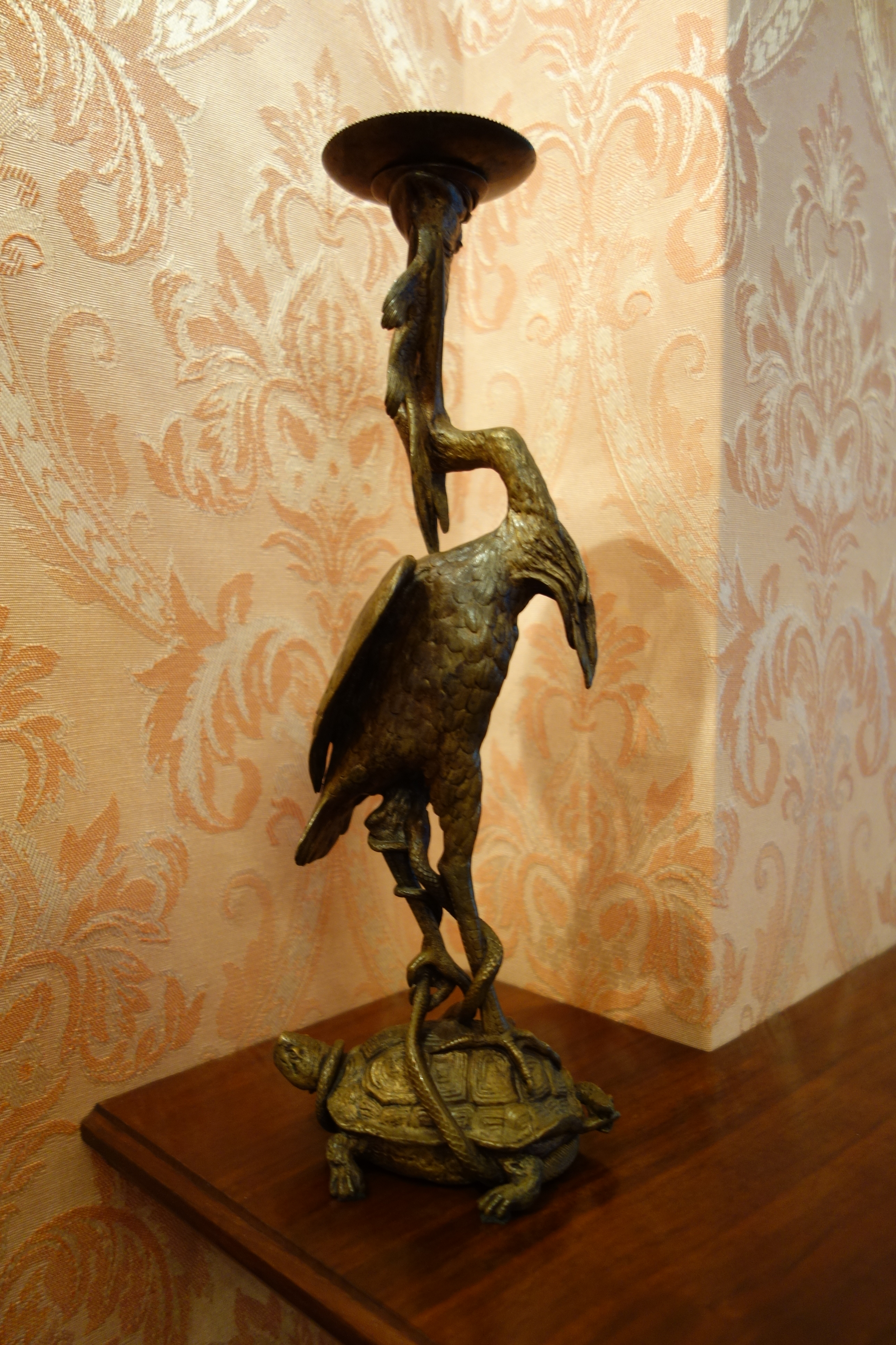 A bronze candlestick in the shape of a grey heron, standing on a turtle. France, circa 1860